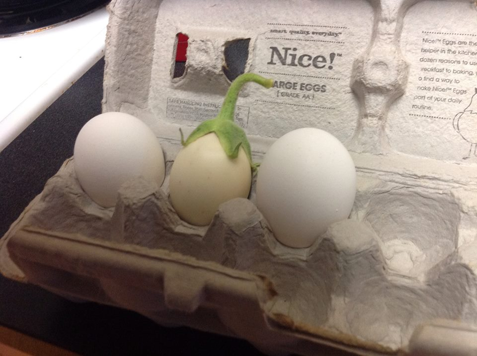 A white eggplant comparing shape and size to chicken eggs